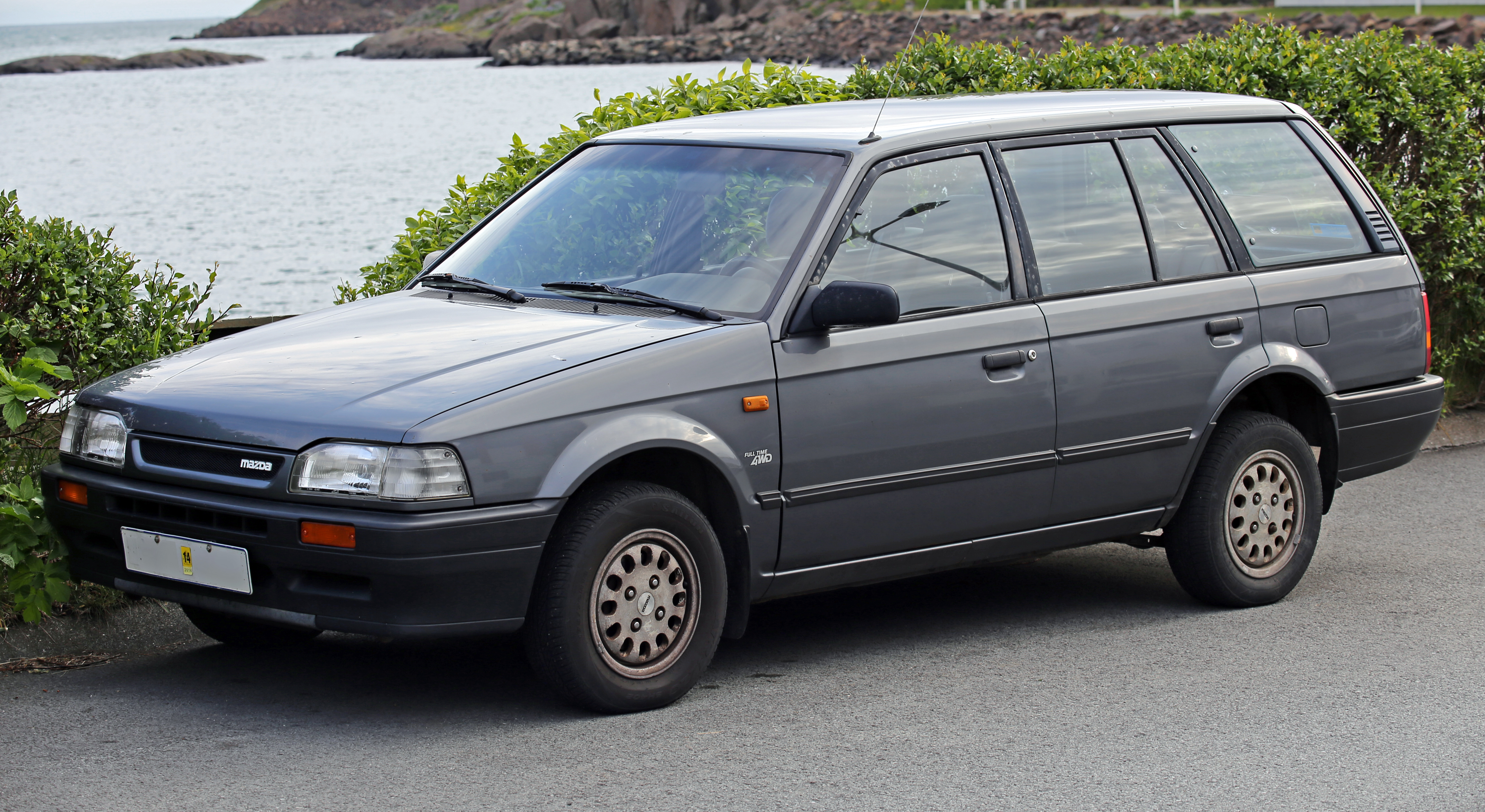 1994 Mazda 323 Wagon Full Time 4WD 1.6 (BW82, B6 engine). This facelifted model appeared after the BF series on which this car was based had been replaced by the new BG Familia.